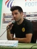 Ceres-Negros assistant coach Ronald Ian Treyes (right) and Bienvenido Marañon during the post-match interview Wednesday night (May 23, 2018) at Panaad Stadium in Bacolod City. Ceres-Negros regained the top spot in the Philippines Football League rankings after dominating Davao Aguilas, 3-0 at the Panaad Stadium in Bacolod City.